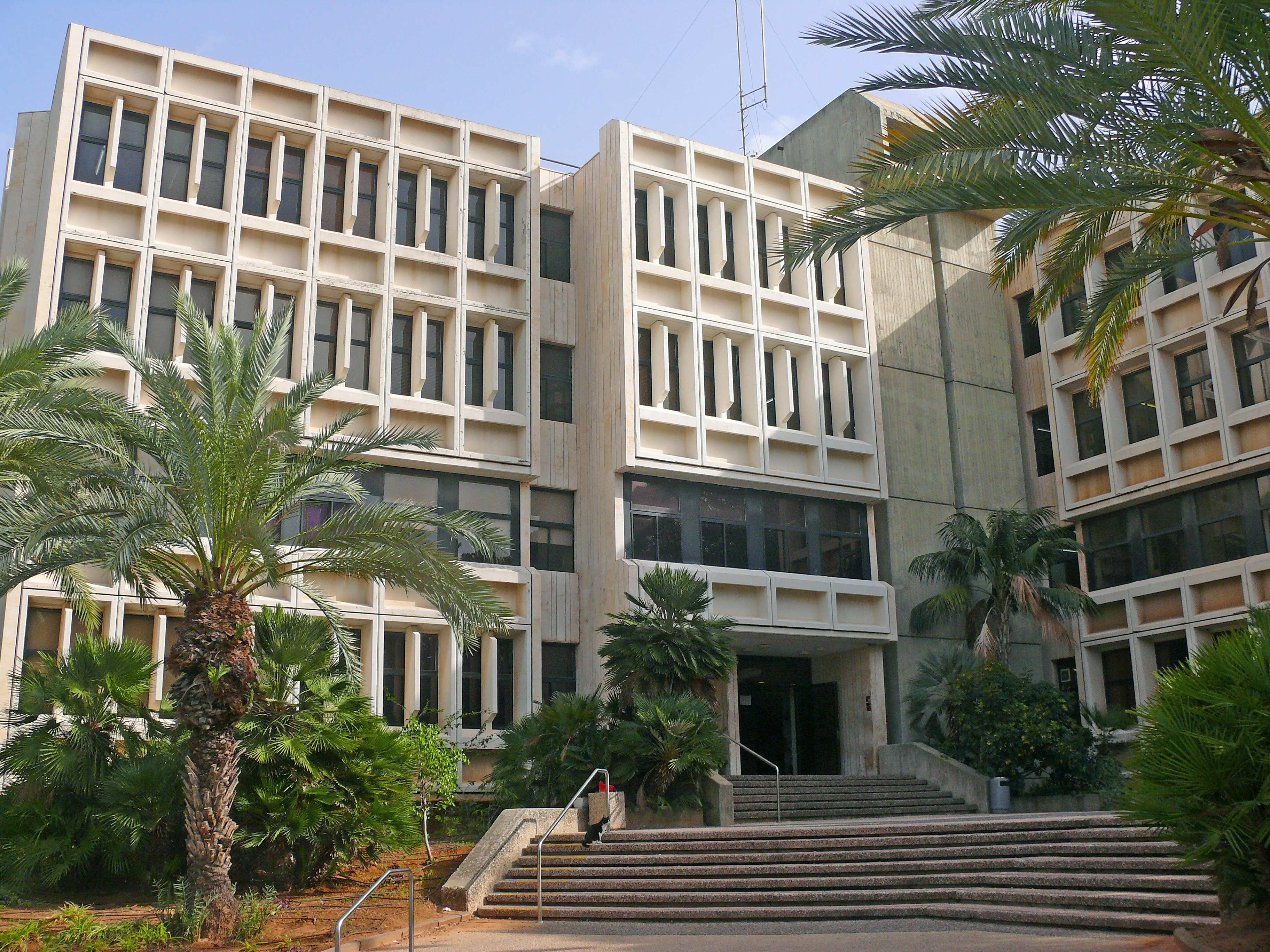 The Vladimir Schreiber Institute of Mathematics, Tel Aviv University, Israel